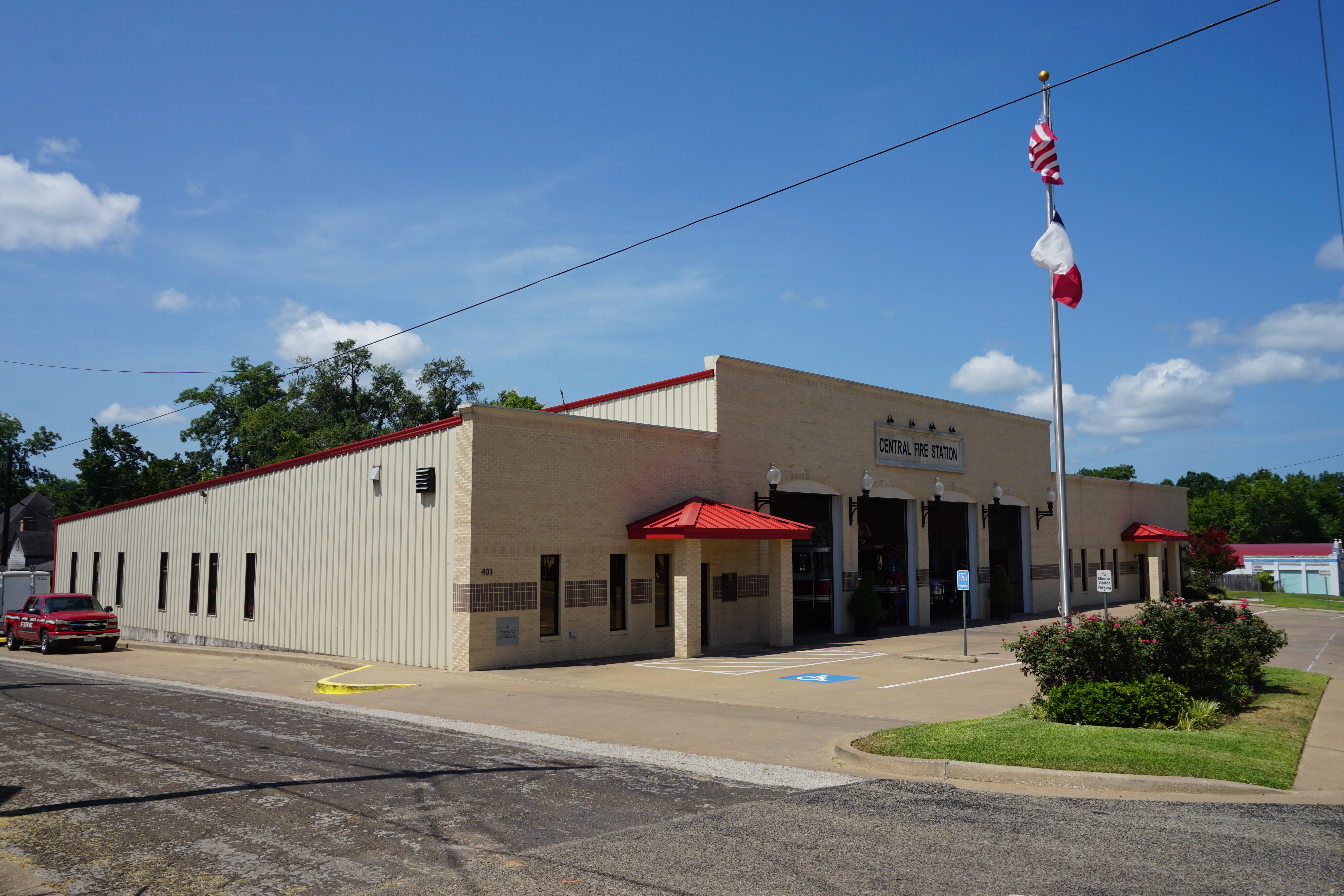 The Central Fire Station in Henderson, Texas (United States).